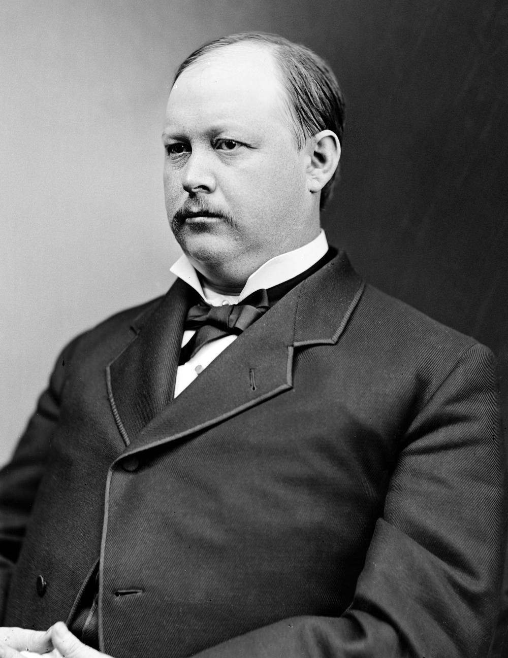 Thomas Brackett Reed. Library of Congress description: "Reed, Hon. Thomas B. of Maine".